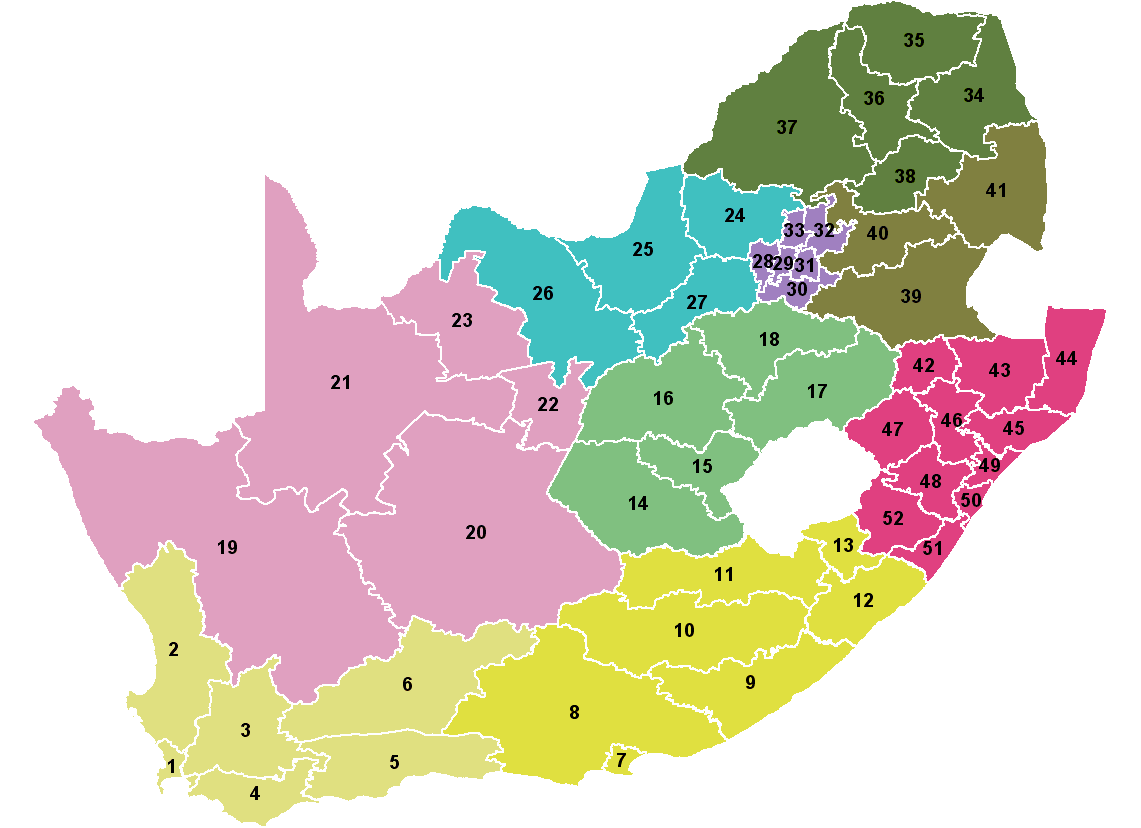 Map showing the 52 districts of South Africa. Colours indicate the 9 provinces. Created by Wayne Dam using data from the Municipal Demarcation Board after the 12th amendment to the Constitution.